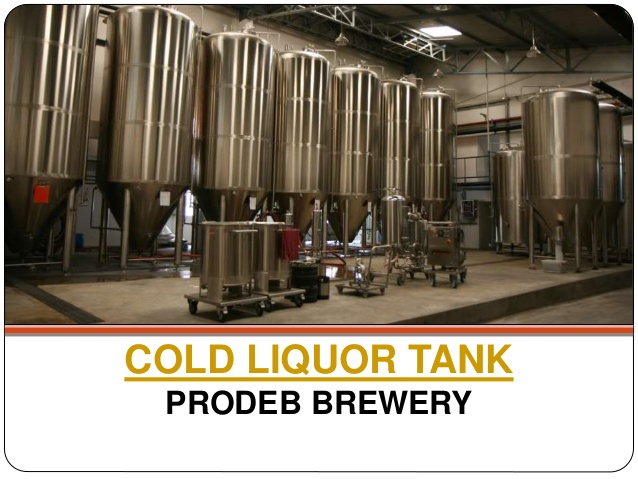 Cold-liquor-tank-2-638